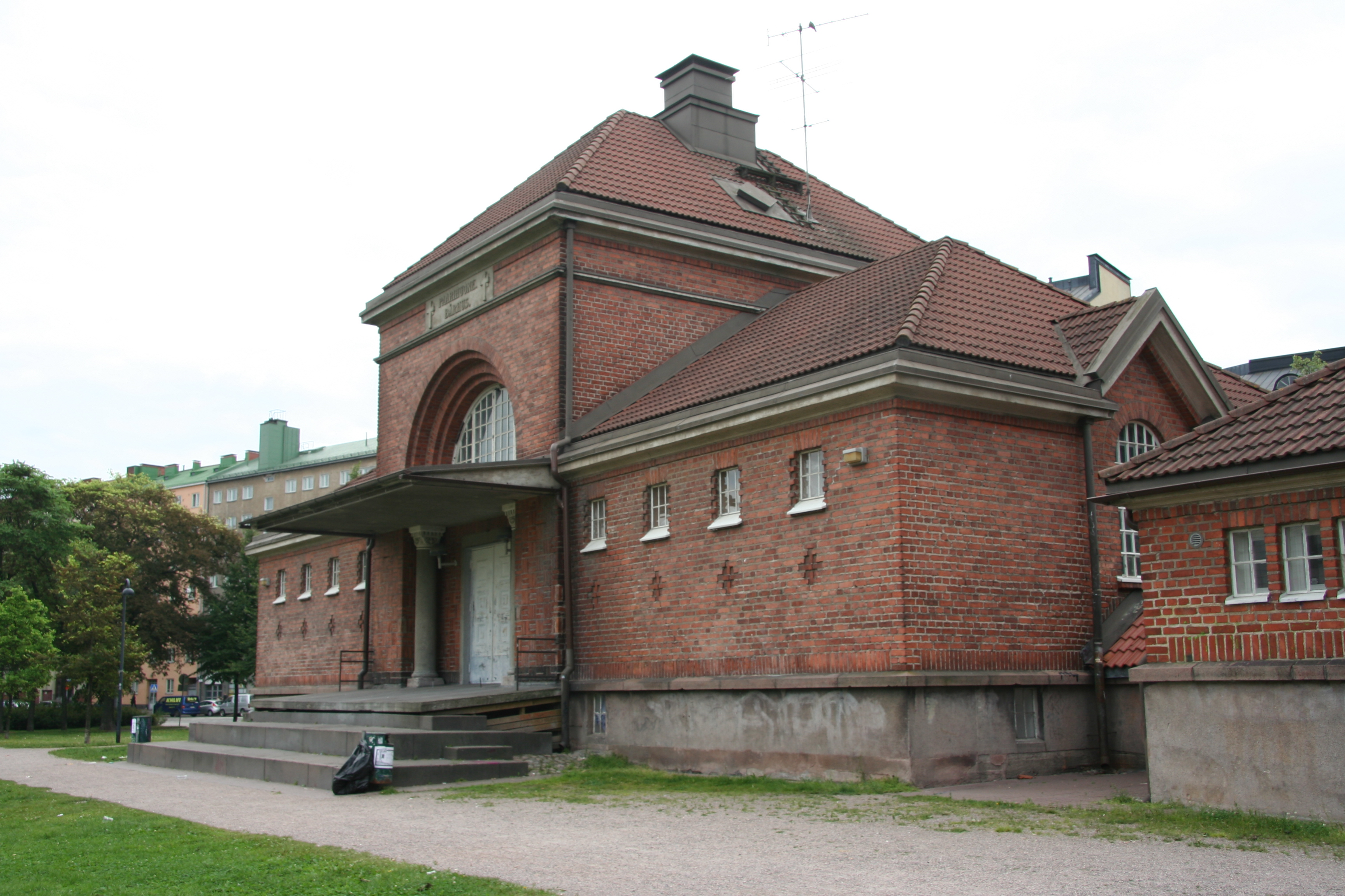 Former Harjun paarihuone, Helsinki. Architect Albert Nyberg, 1923.